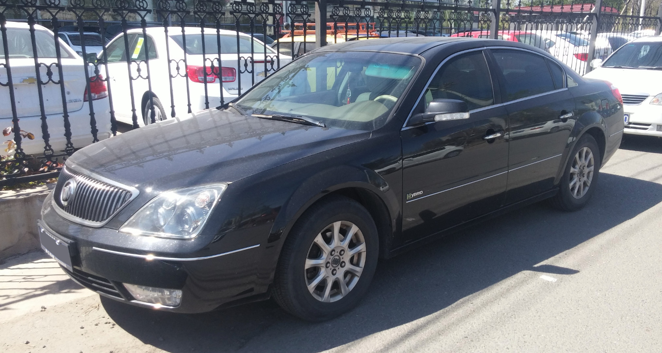 Buick LaCrosse CN Hybrid photographed in Beijing, China.